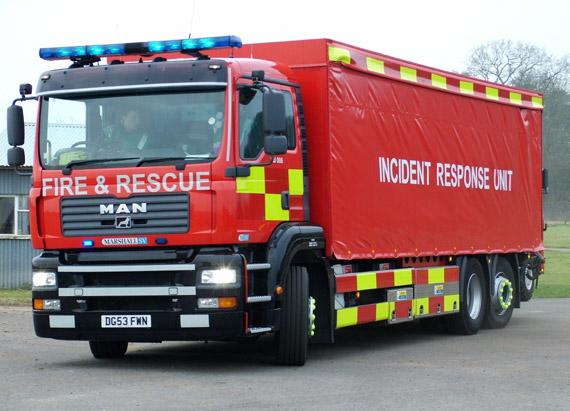 UK decontamination unit